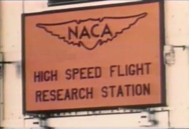 NACA High Speed Flight Research Station Sign.